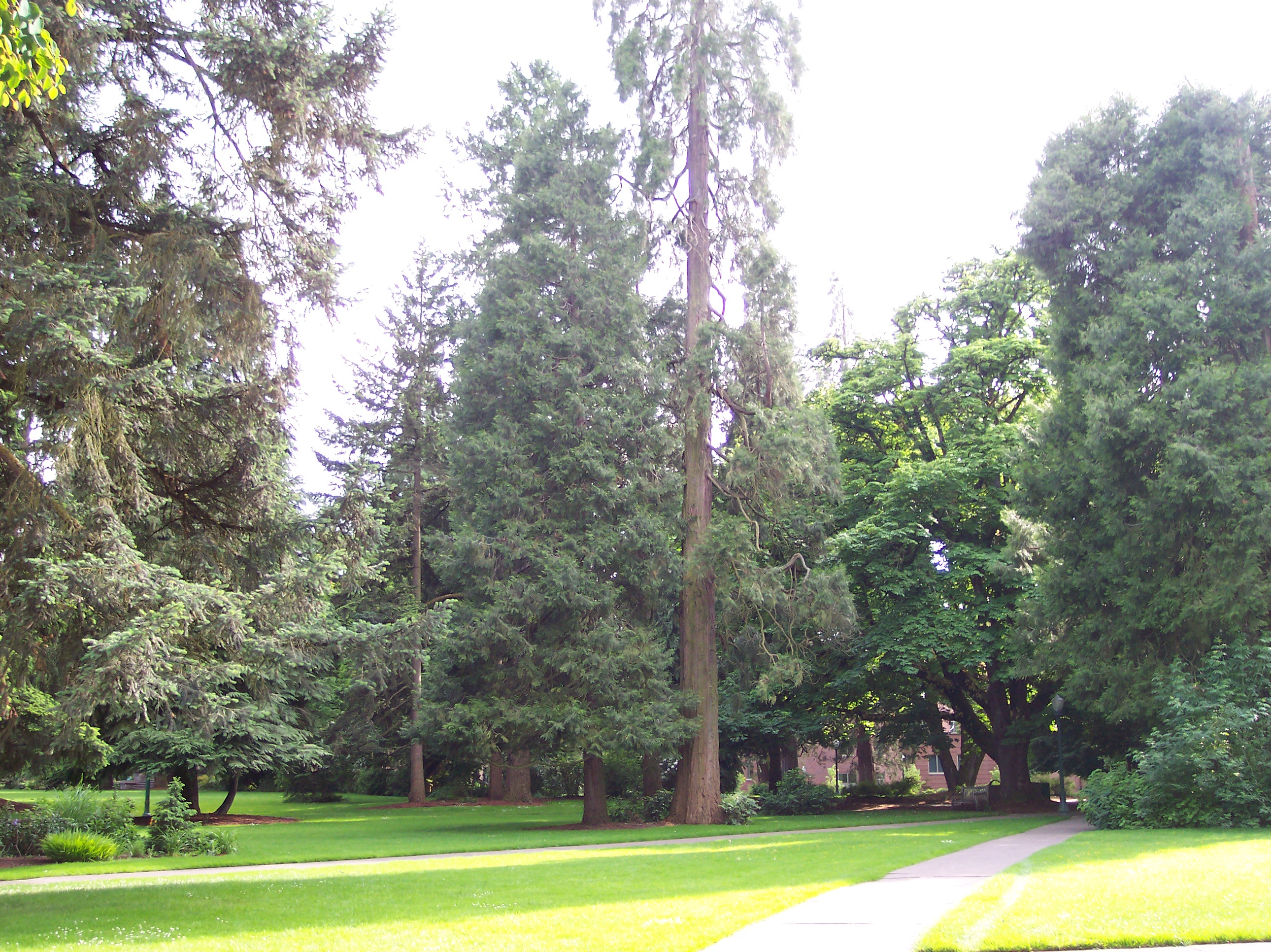 Trees on the Univ. of Oregon campus. Taken by myself. Adam850 01:52, 6 June 2006 (UTC)